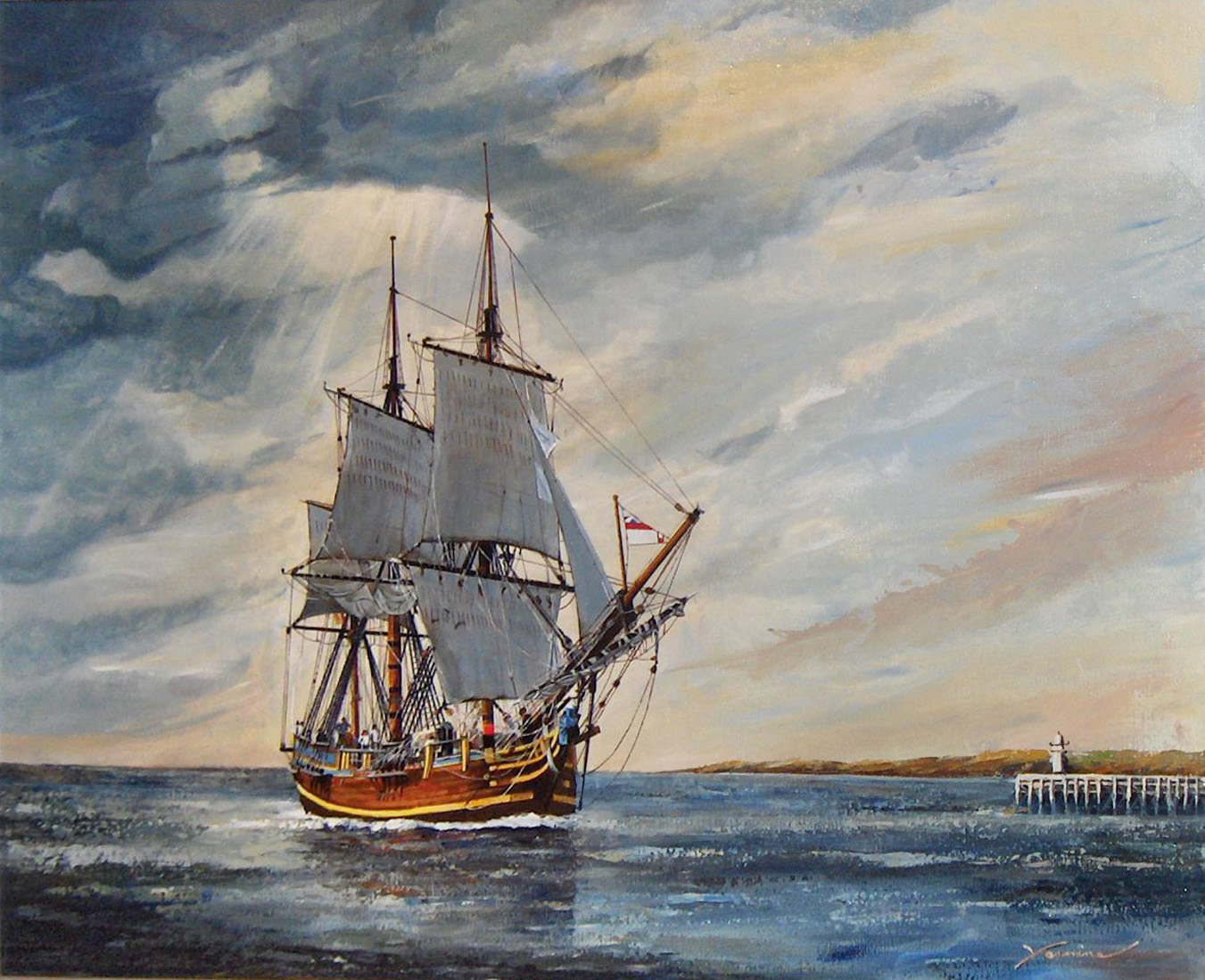 "Bounty", painting of a replica of the Bounty entering the harbour of Ostend, Belgium; by Yasmina (1949- ), a Belgian painter specialized in marines and depictions of tall ships